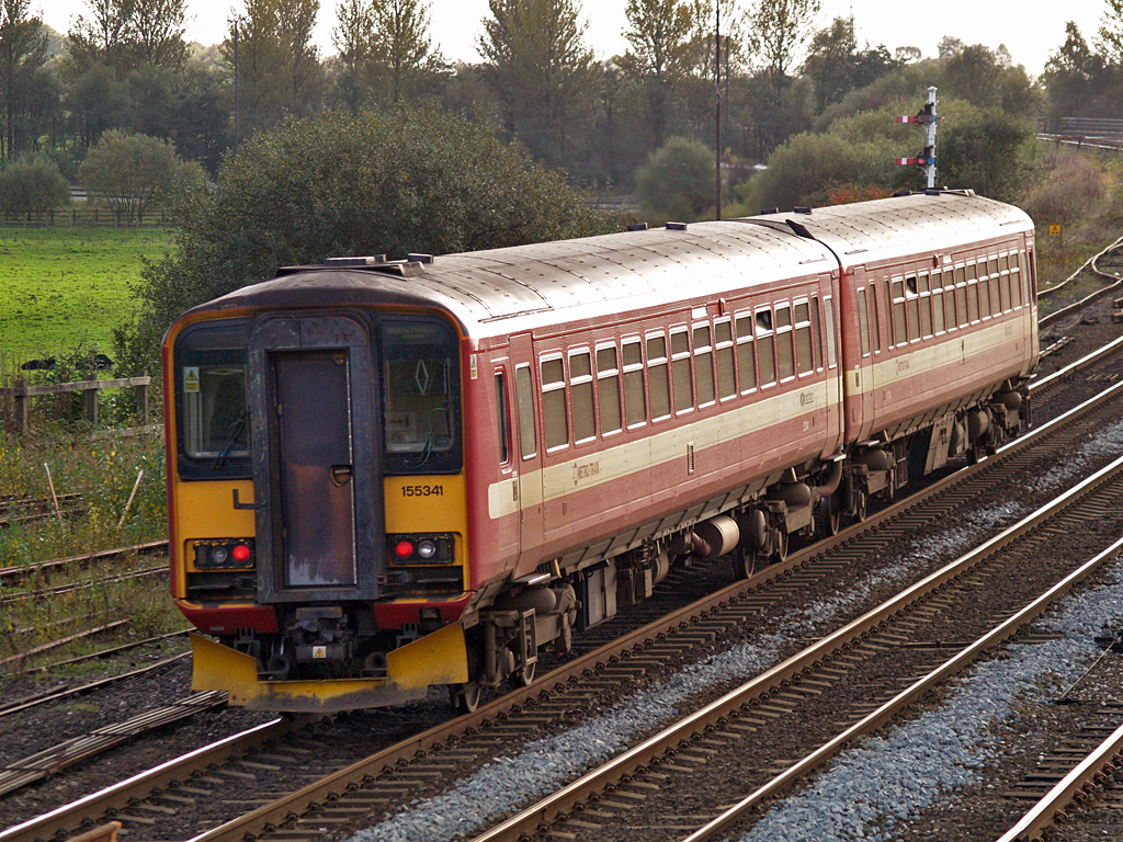 West Yorkshire PTE Leyland Bus Limited class 155 ‘Super Sprinter’ two car diesel-hydraulic multiple unit number 155341 of Neville Hill T&RSMD passes by Castleton East Junction on the Up Main line forming the 12:03 Leeds to Manchester Victoria (2M16). Sunday 29th October 2006